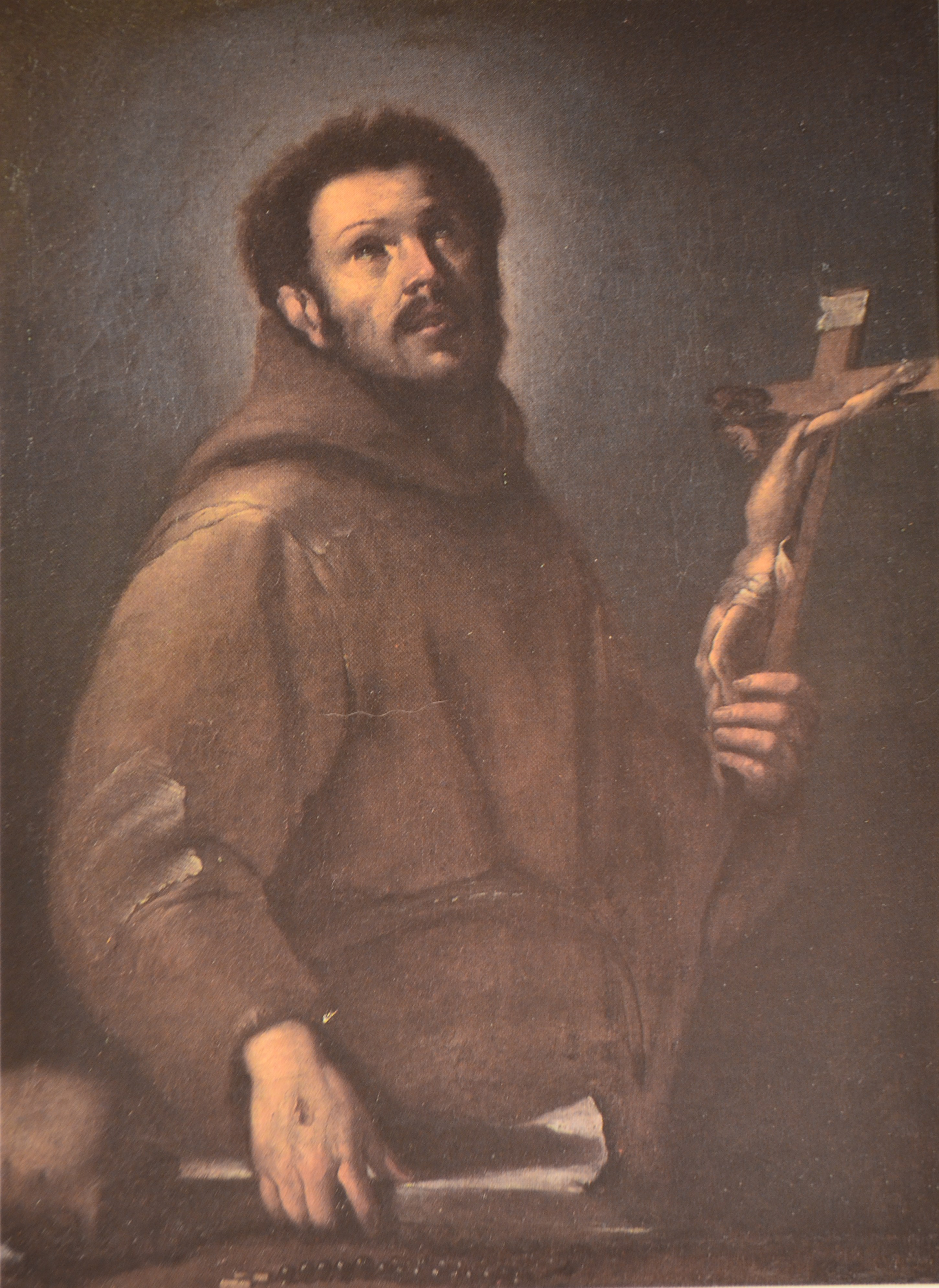 Bernardo Strozzi, San Francesco, Campagnola Cremasca, Chiesa parrocchiale